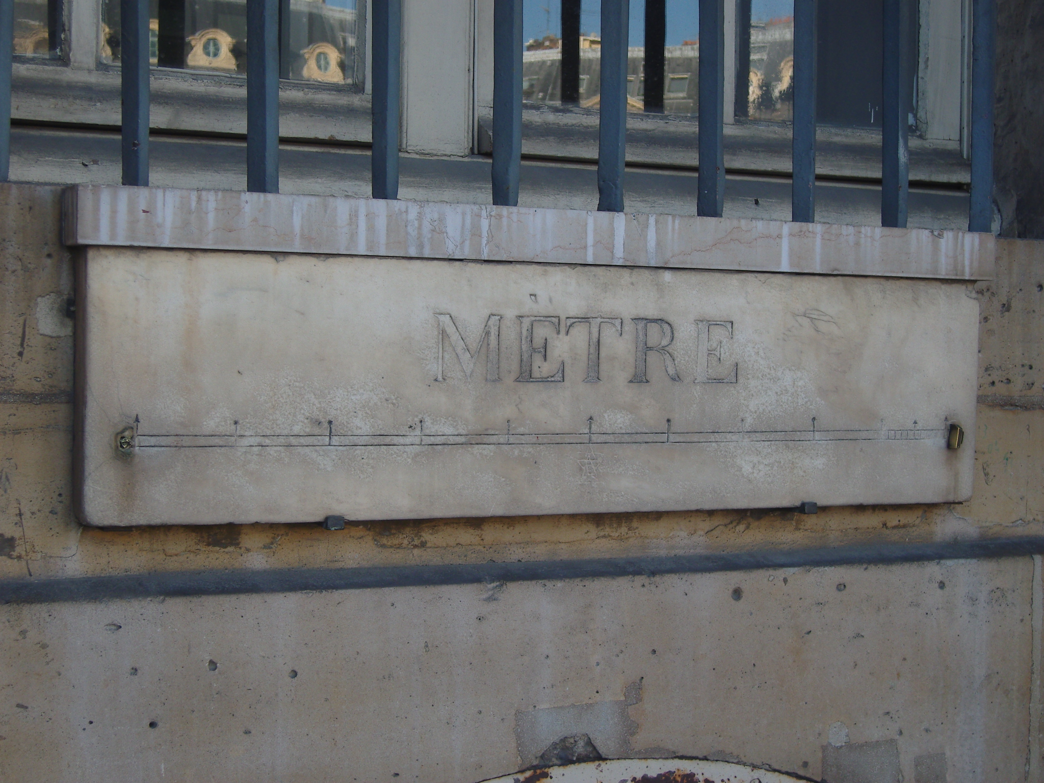 Standard meter on the left of the entrance of the french Ministère de la Justice : 13 place Vendôme Paris 1st arr.)